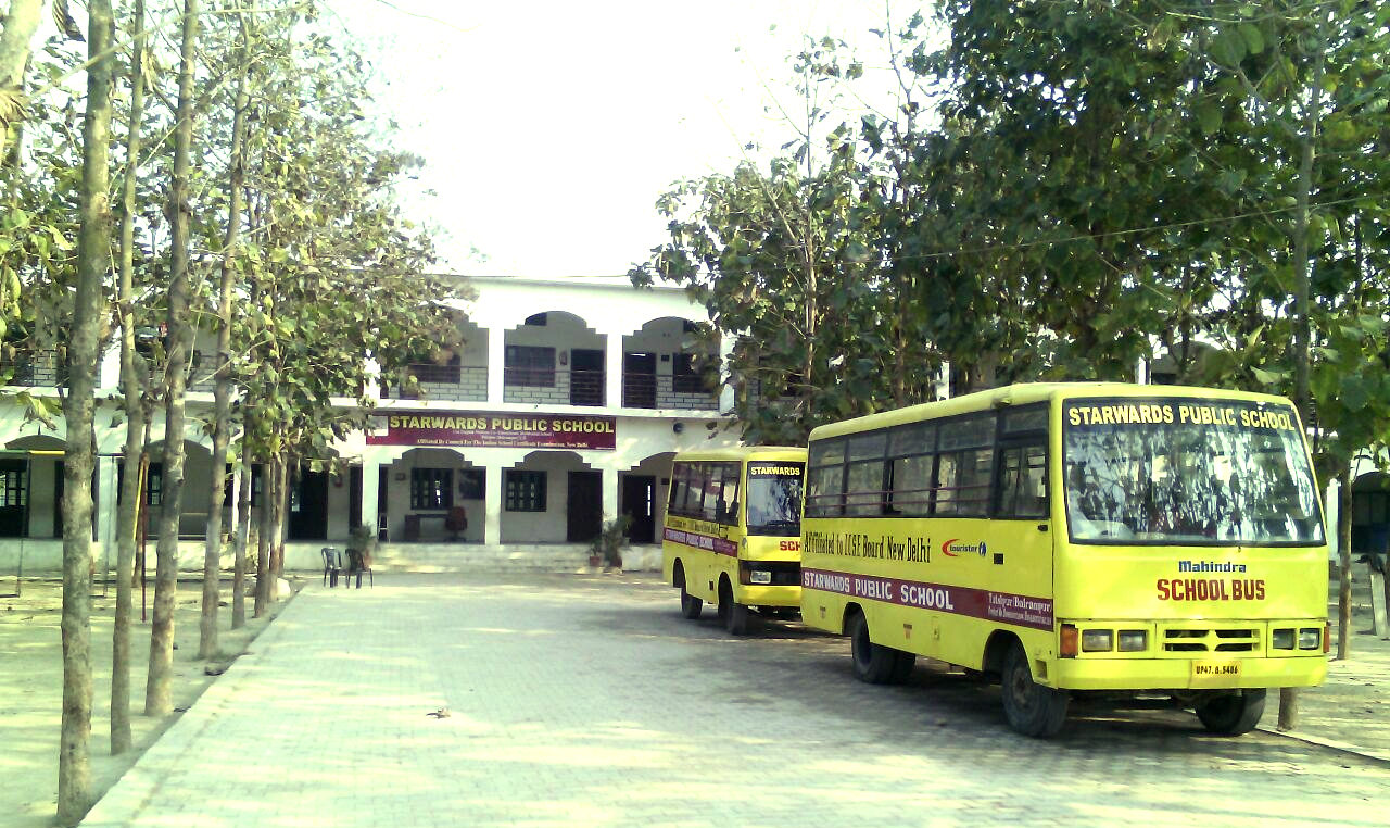 School in Tulsipur